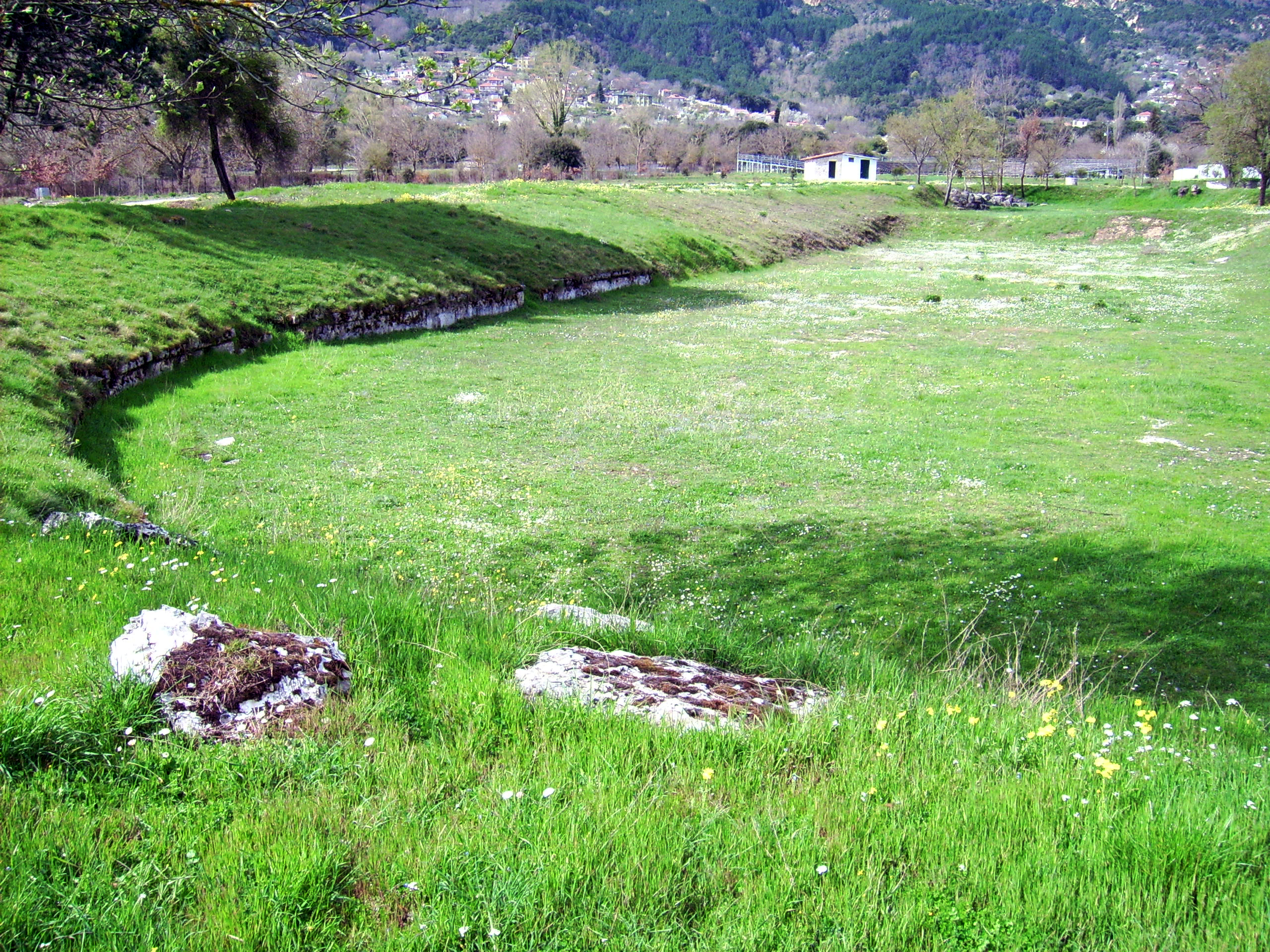 Oracle of Zeus at Dodona - exact discription follows nearby